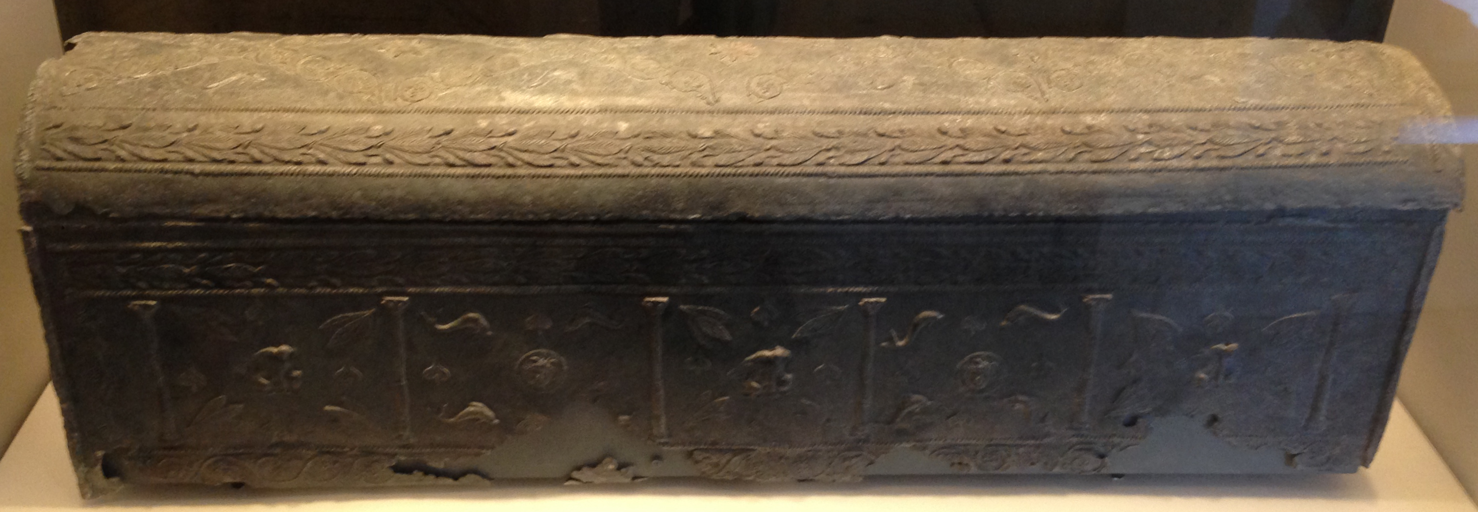 A lead coffin from Tyre area, 3rd to early 4th century A.D., on display at the Musée d’art et d’histoire (MAH) in Geneva, Switzerland